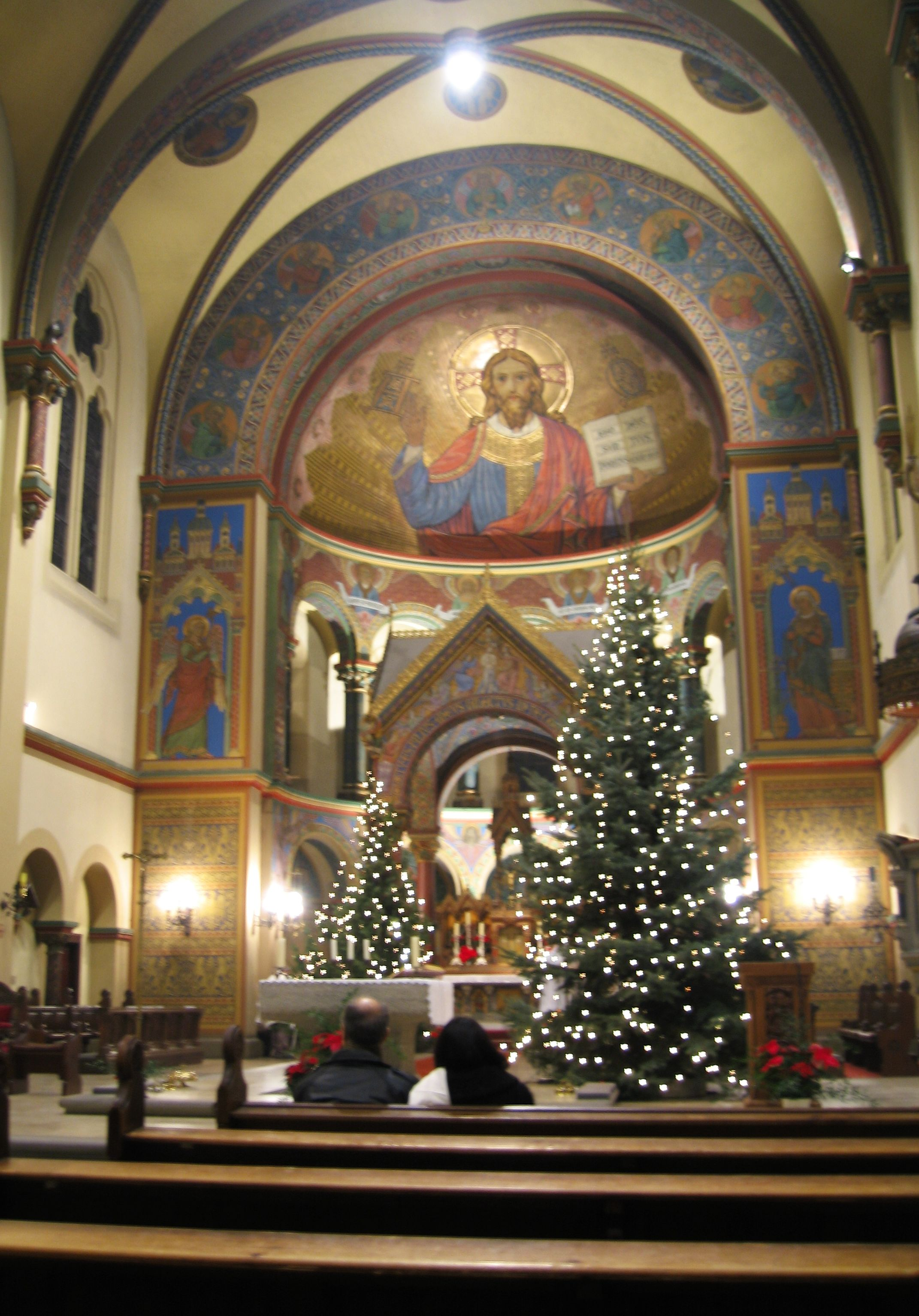 St. Johannes / Polish Basilica / Berlin 06 Contemplative moments after the Christmas Eve